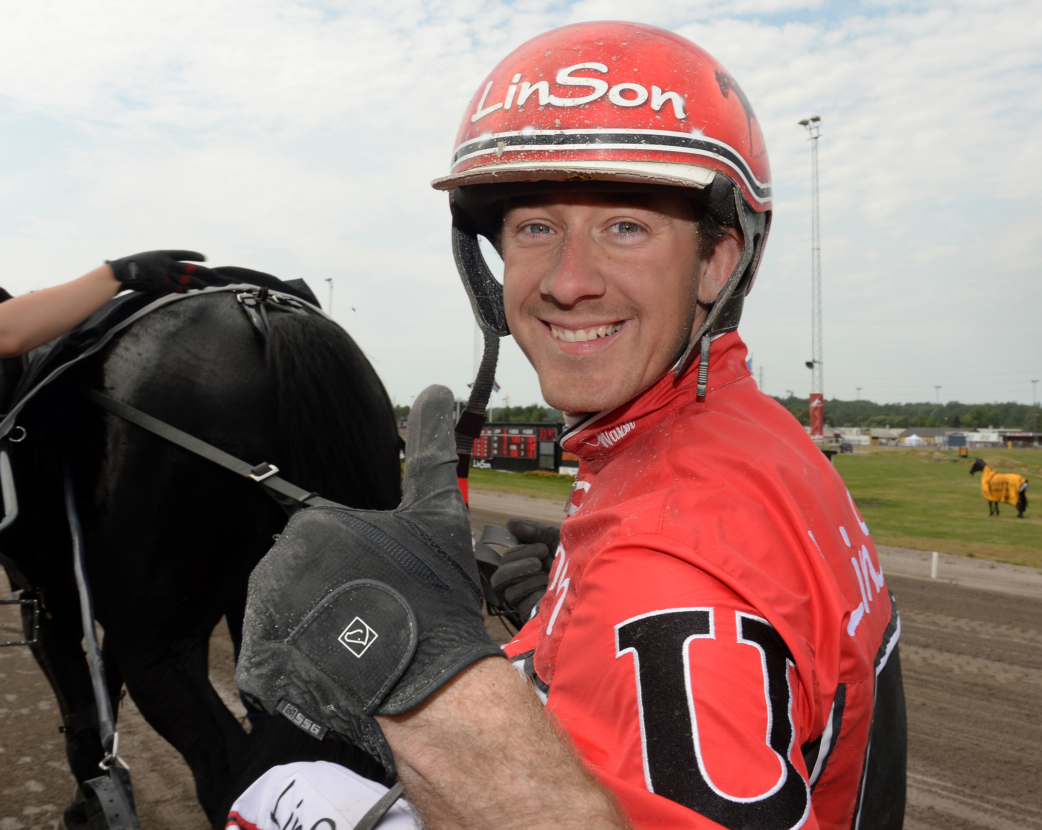 Johan Untersteiner 2014